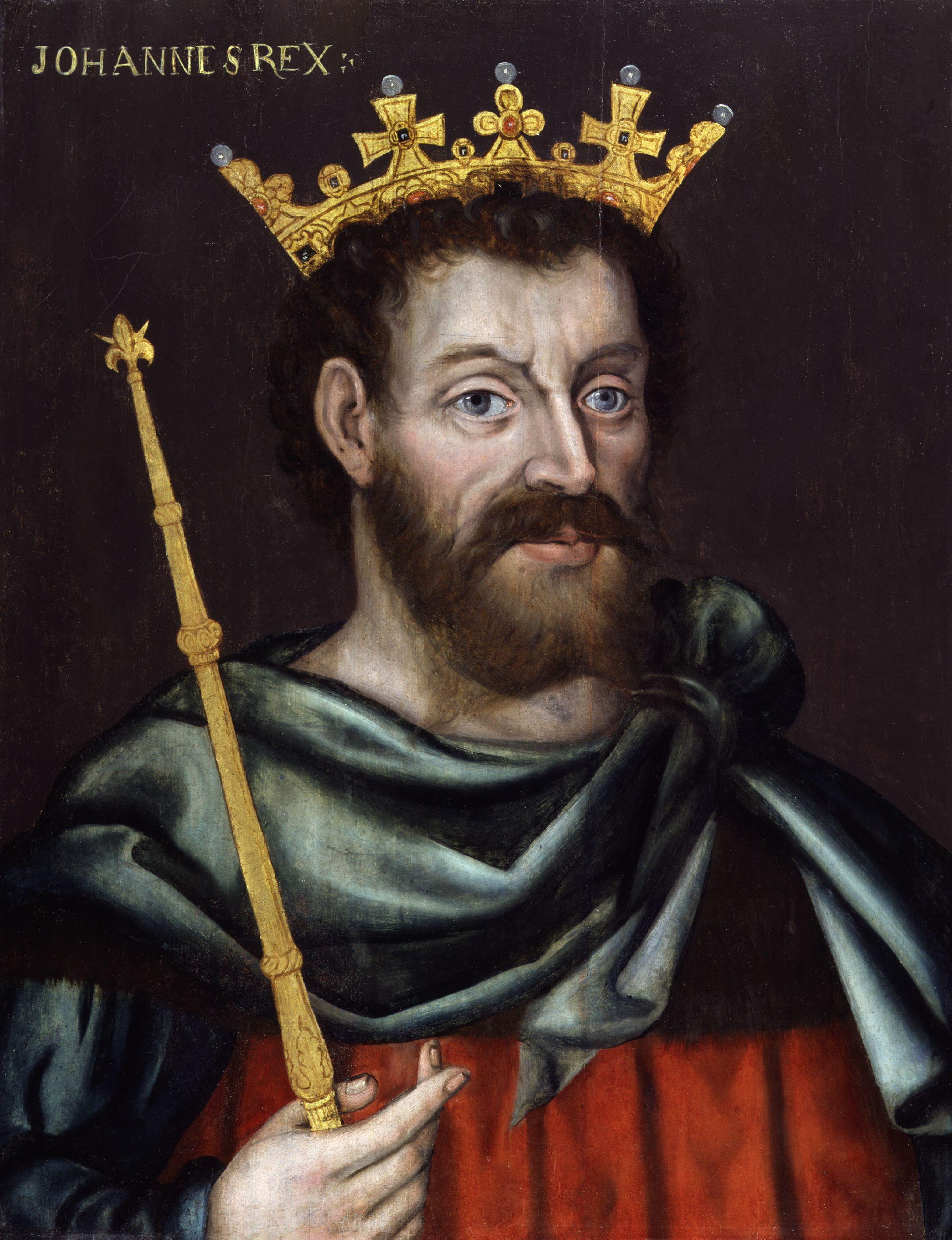 King John, by unknown artist. All images in this batch are listed as "unknown author" by the NPG, who is diligent in researching authors, and was donated to the NPG before 1939 according to their website.